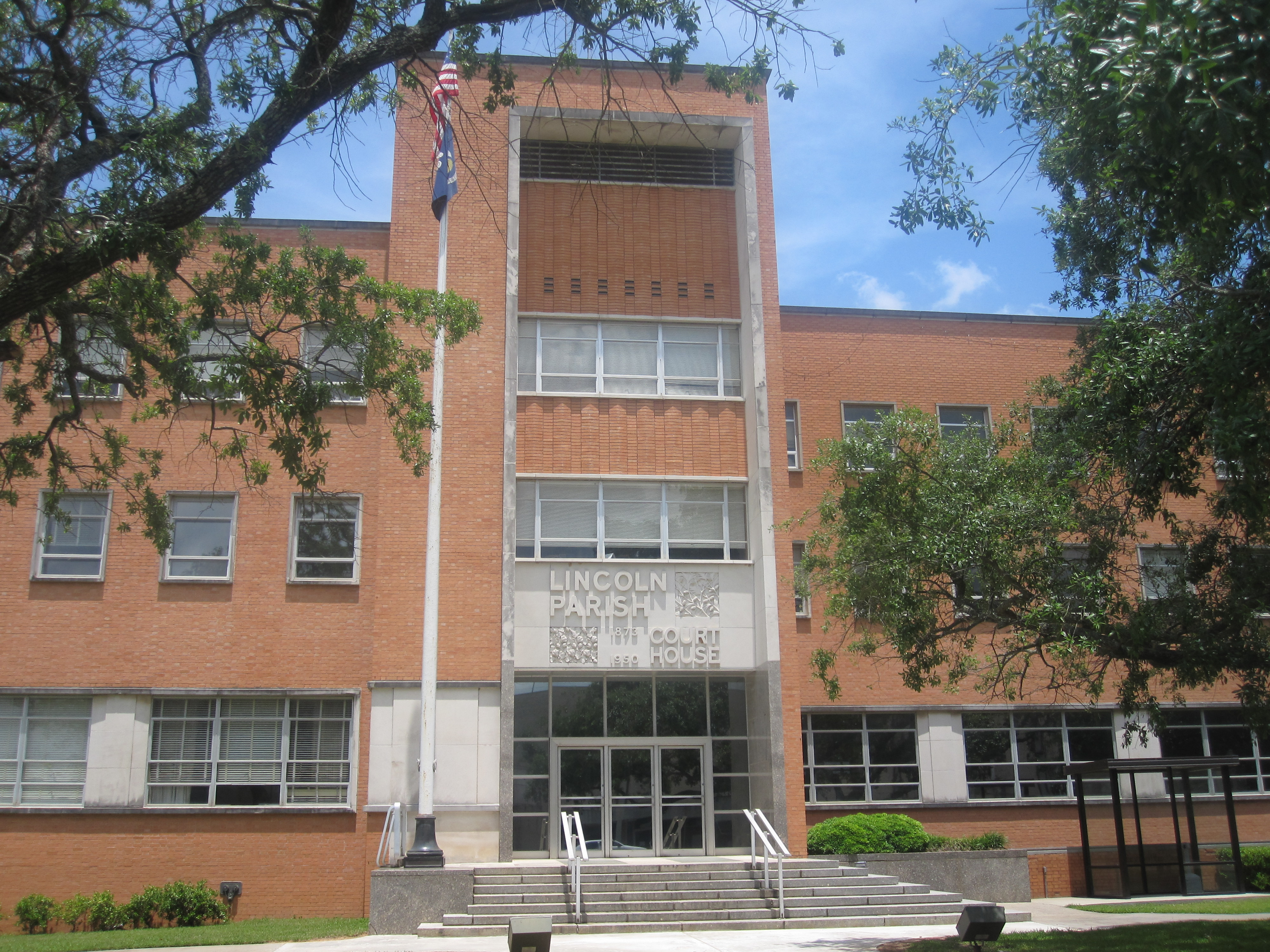 I took photo with Canon camera.